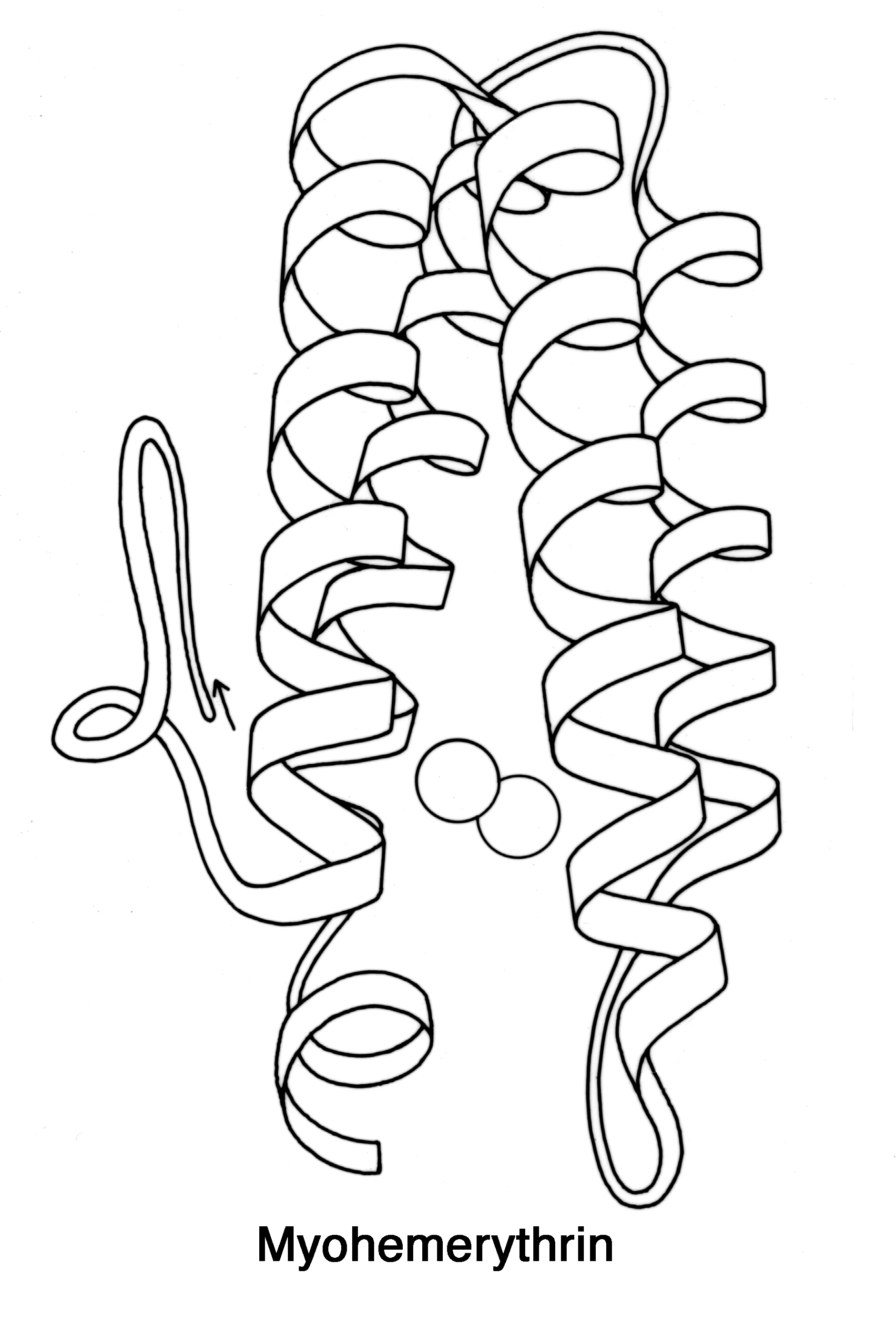 Myohemerythrin ribbon schematic, a 4-helix bundle protein structure with a bound iron. Hand drawn by Jane Richardson in 1980, from PDB file 2MHR.